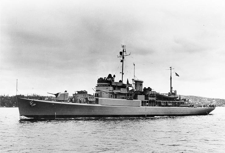 Photo #: 19-N-87294 USS Greenwich Bay (AVP-41) Underway near her builder's yard at Houghton, Washington, on 16 May 1945. Photograph from the Bureau of Ships Collection in the U.S. National Archives.